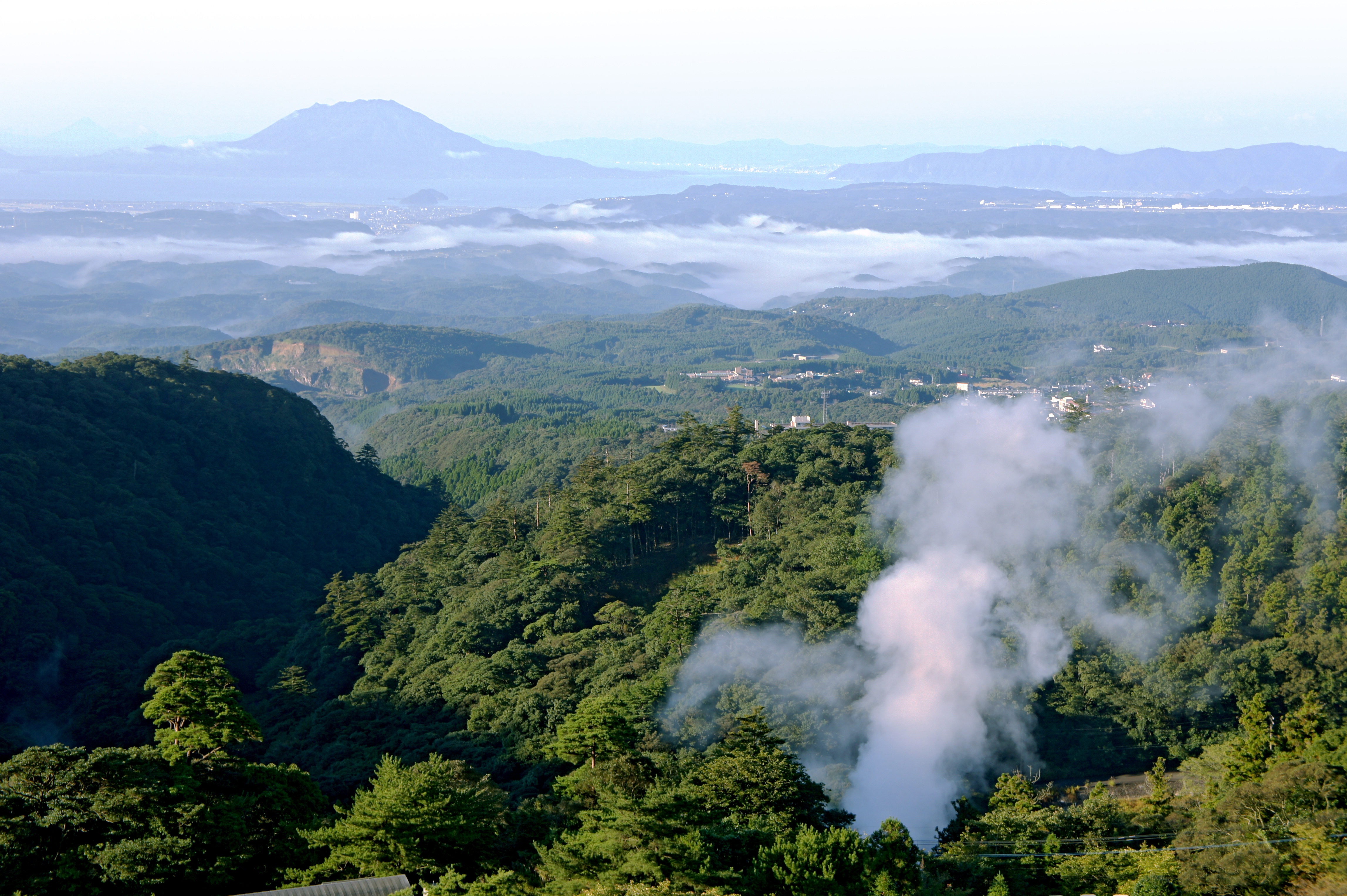 Mt. Sakurajima view from Hayashida Onsen of Kirishima Onsen in Kirishima, Kagoshima prefecture, Japan.